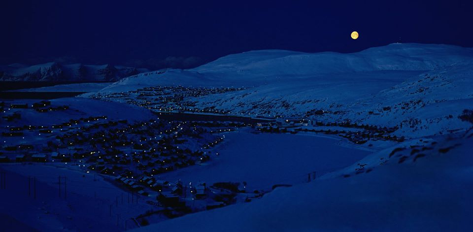 Hammerfest, Finnmark, Norway. Photo: Per Harald Olsen